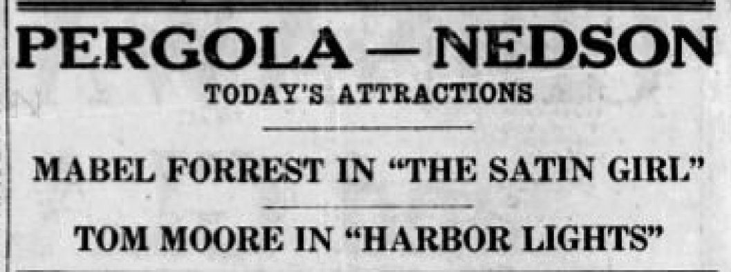 New Pergola - Nedson Theater advertisement for the American film The Satin Girl (1923) and the British film The Harbour Lights (1923) - 3 Mar. 1924 Morning Call, Allentown PA